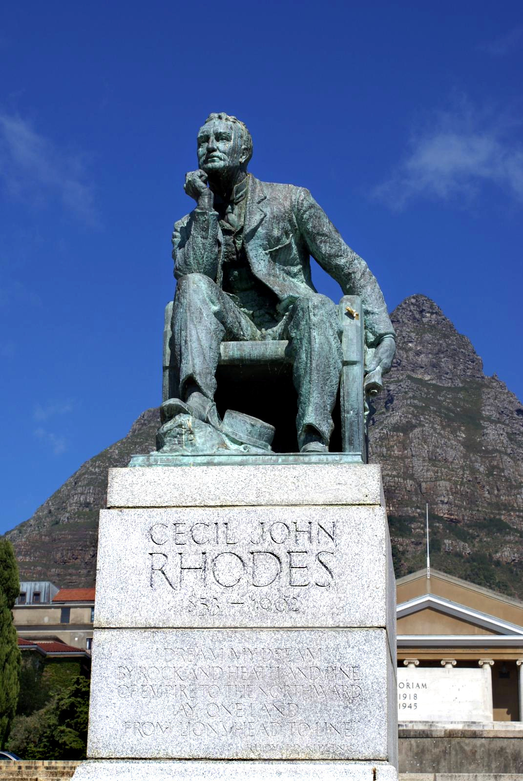 University of Cape Town - Statue of Rhodes by Marion Walgate. Unveiled in 1934, and commissioned by a state-run university.